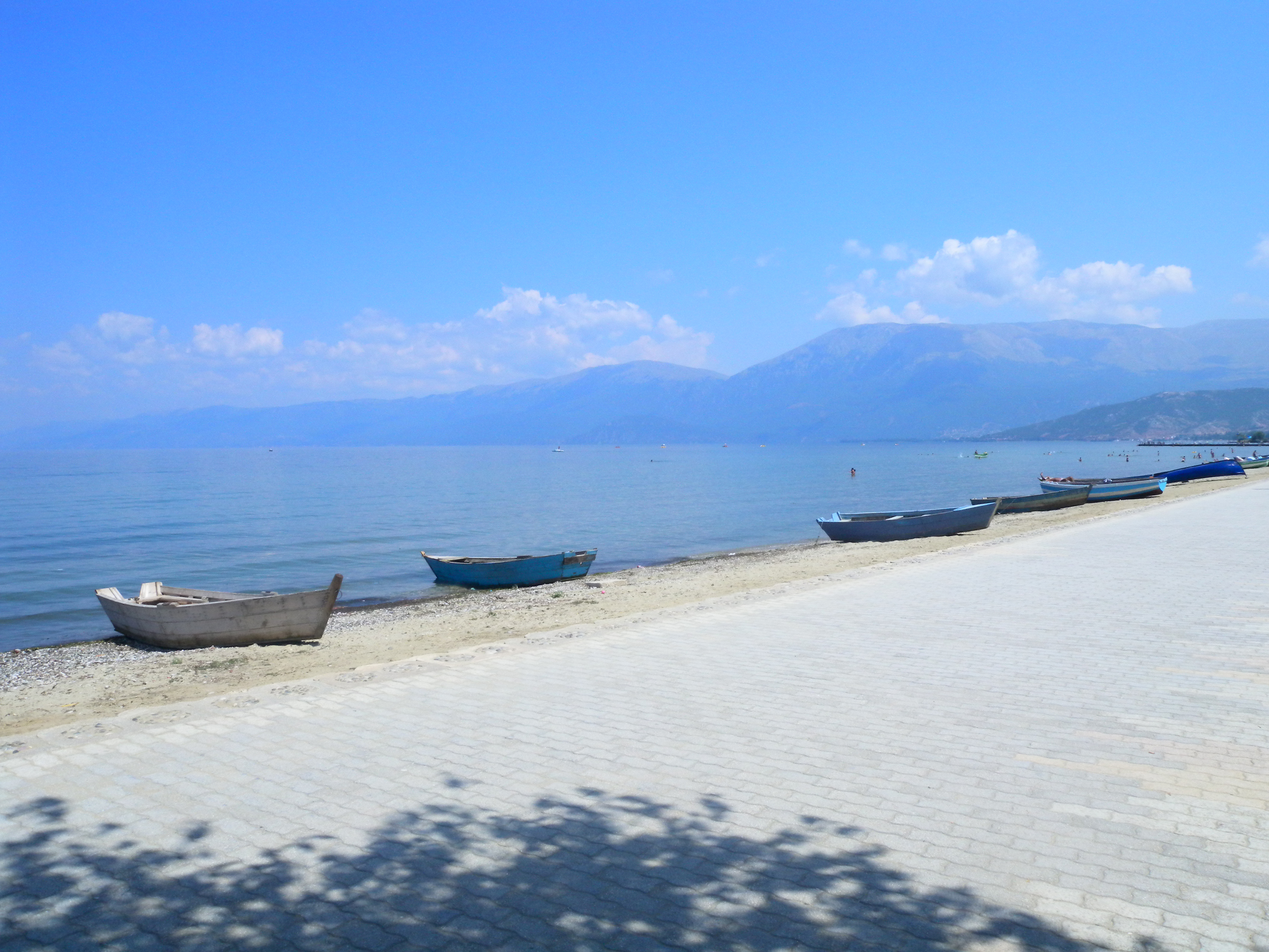 Coast of lake in Pogradec.